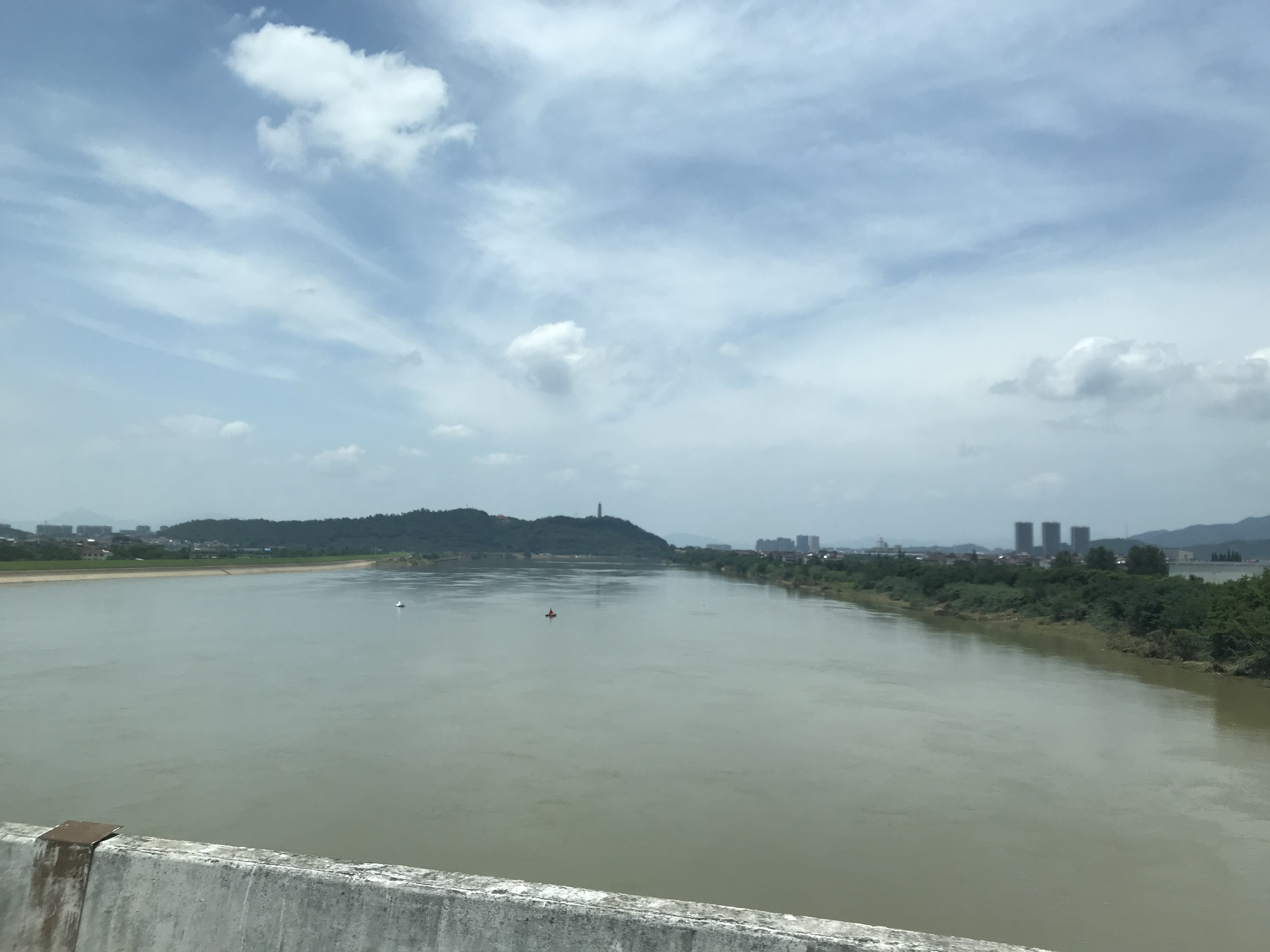 201907 River Qu in Lanxi